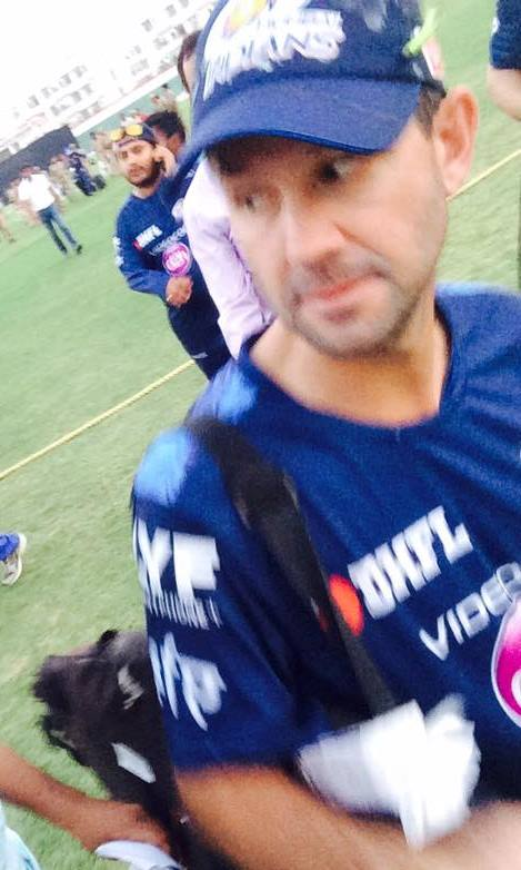 ponting at bbd